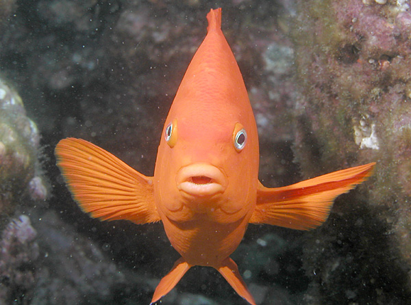 Garibaldi, Catalina Island, Channel Islands, California. Image taken by Clark Anderson/Aquaimages.